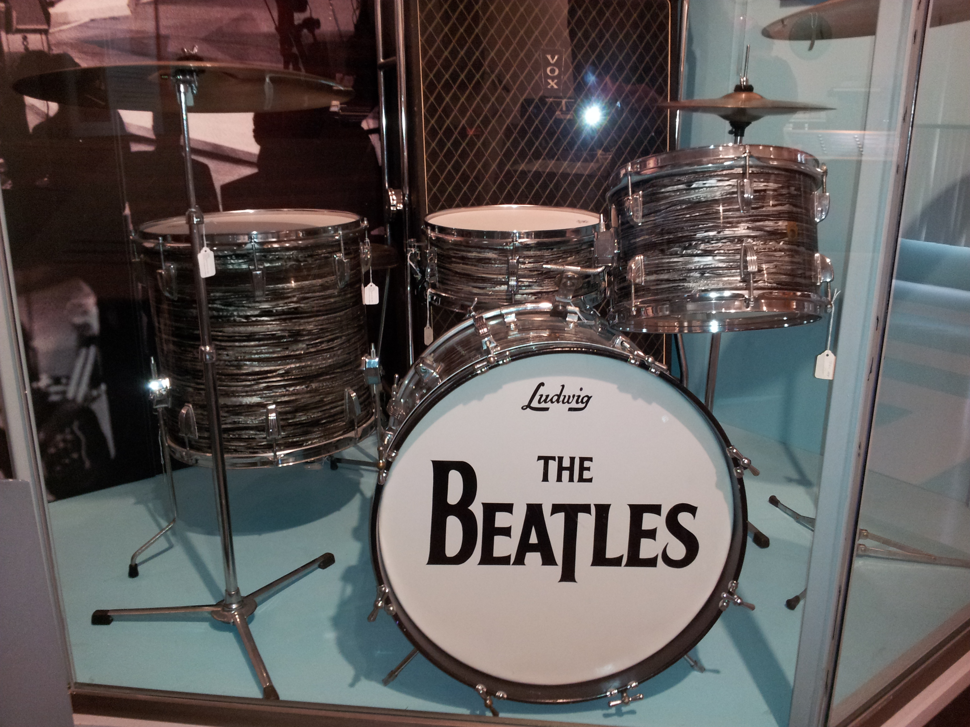 Beatles Ludwig drumset, Vox Super Beatle amplifier, Museum of Making Music.jpg "I believe these were replicas, not the authentic instruments."— doryfour